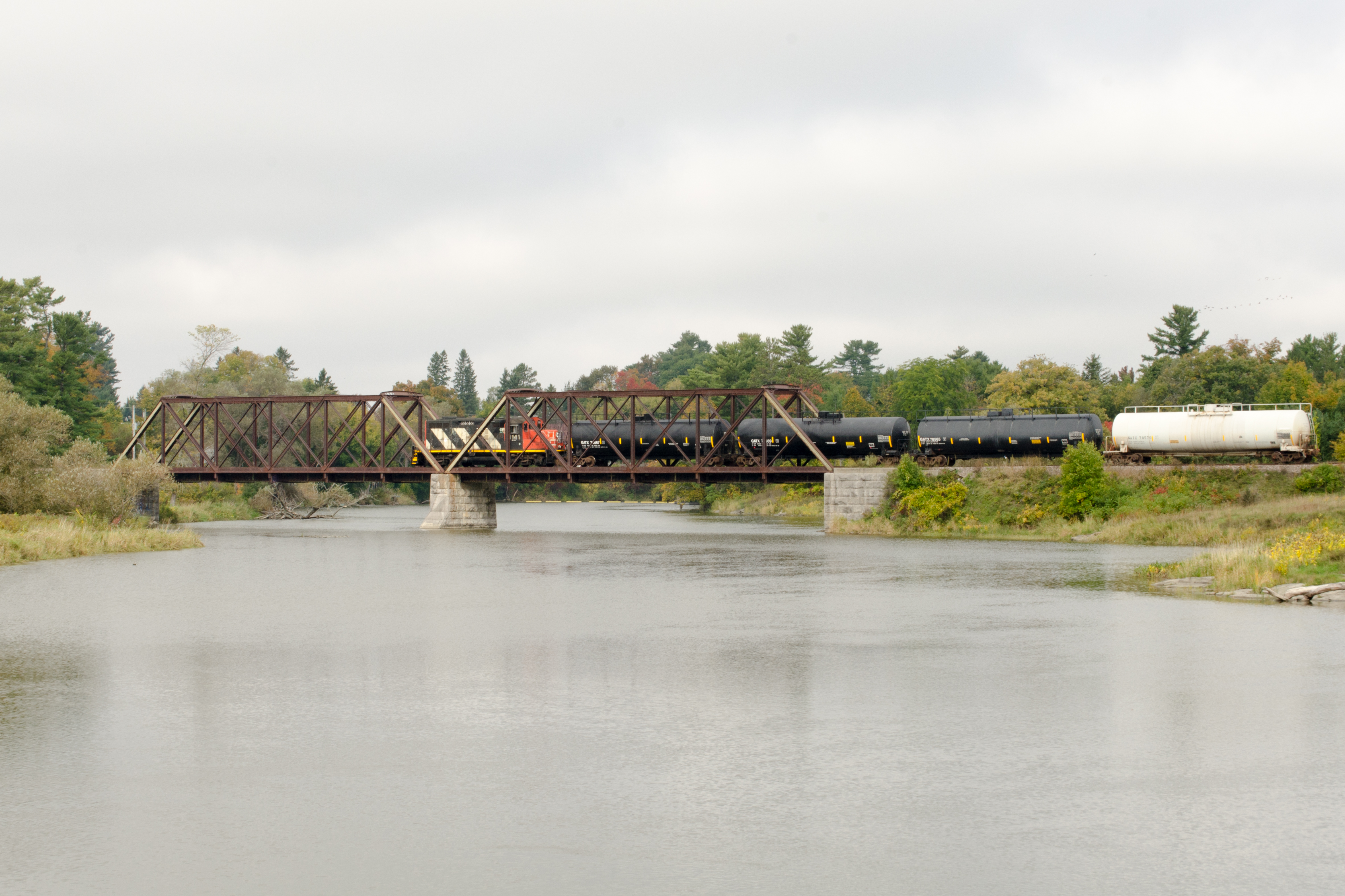 On the Renfrew Sub going to Arnpior.